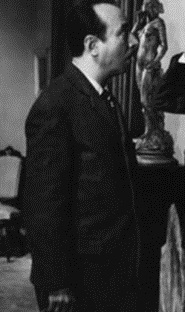 Osvaldo Canonico- actor